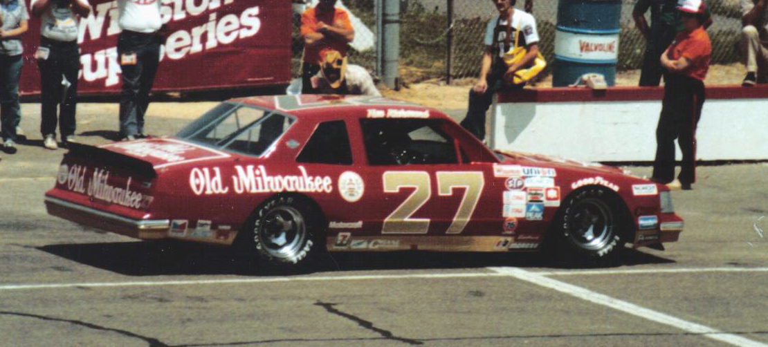 The Raymond Beadle owned Old Milwaukee Pontiac of Tim Richmond finished 4th in the 1983 Van Scoy 500.